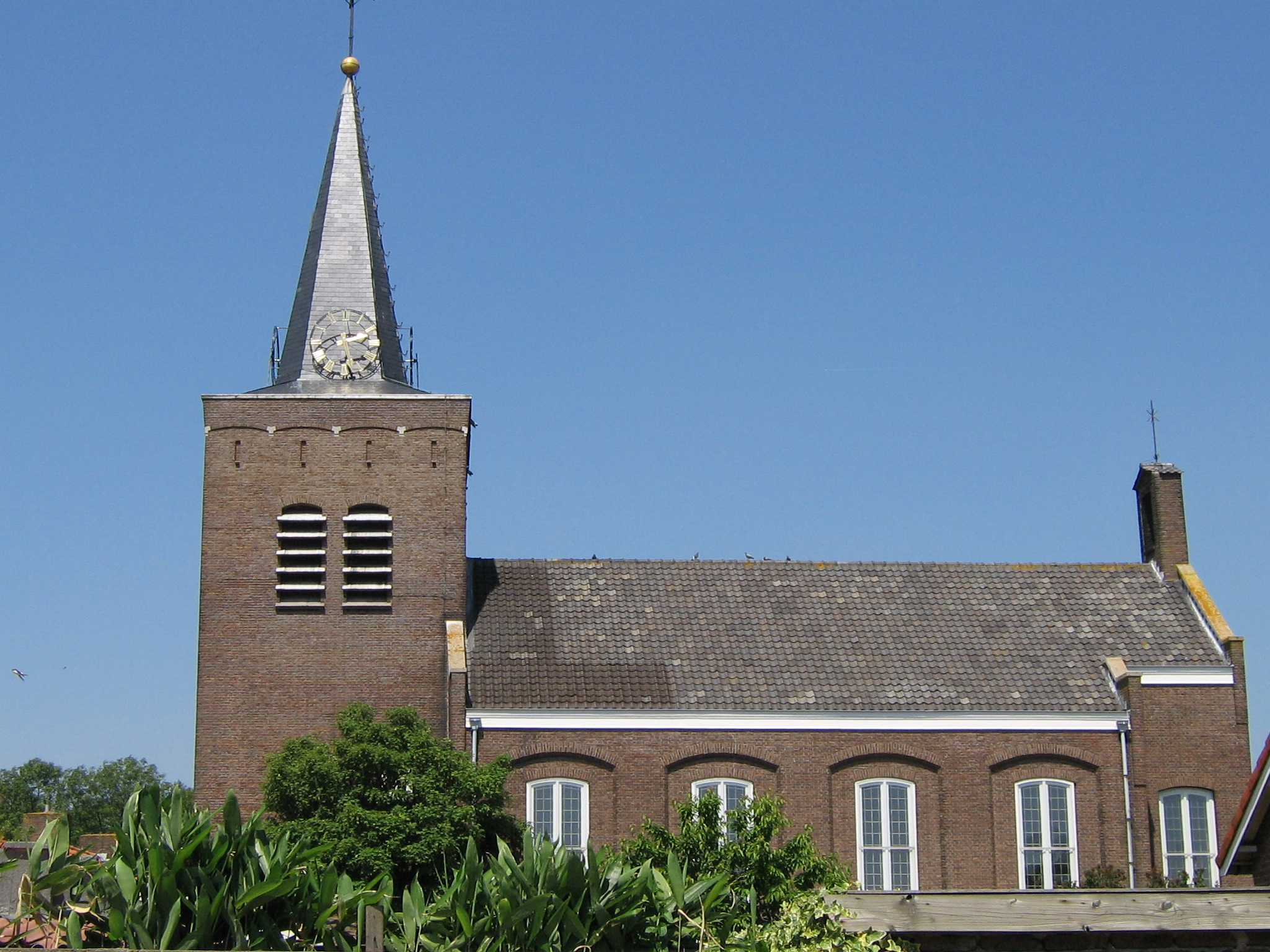 Church in Ellewoutsdijk, Borsele community, Netherlands.